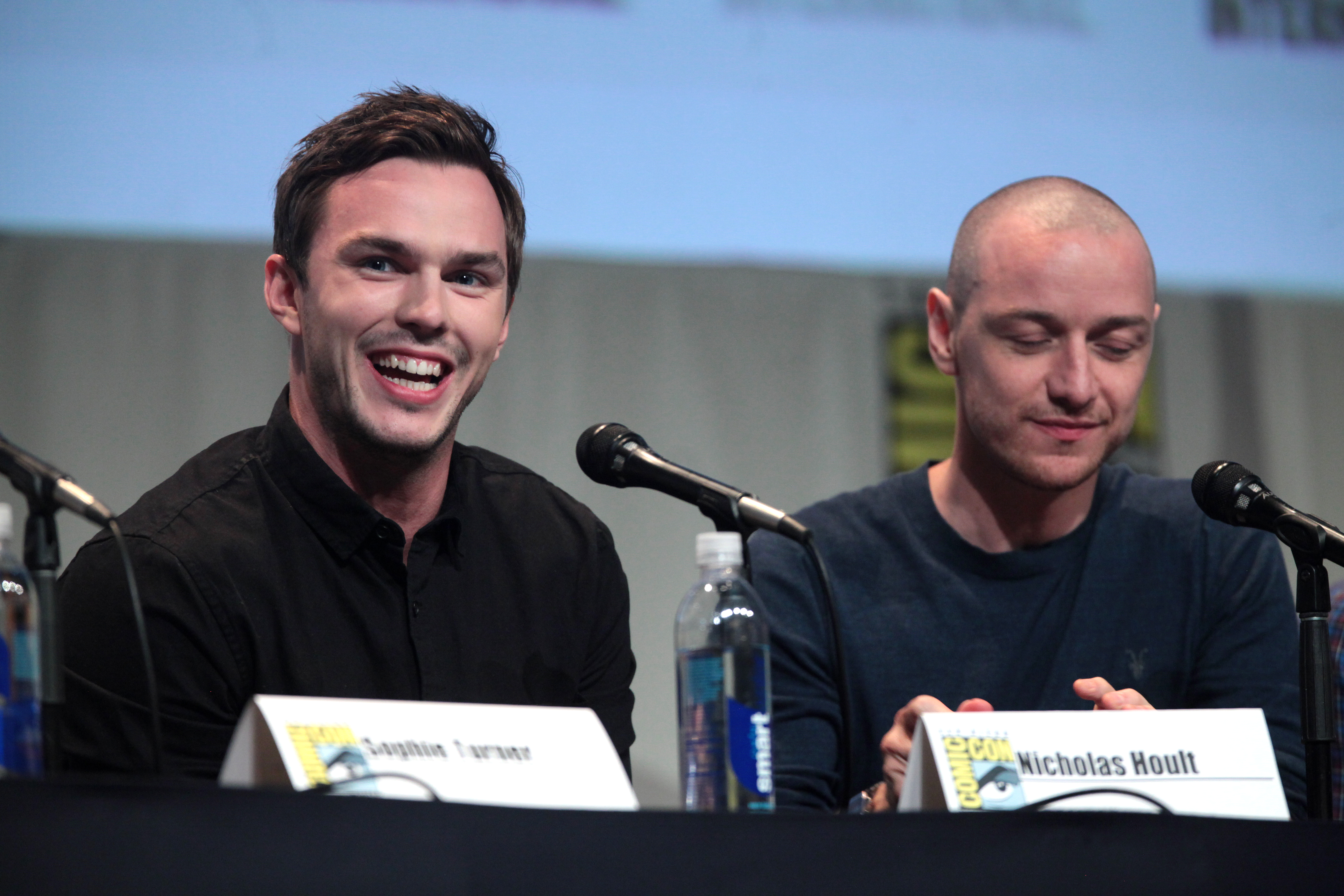 Nicholas Hoult and James McAvoy speaking at the 2015 San Diego Comic Con International, for "X-Men: Apocalypse", at the San Diego Convention Center in San Diego, California.